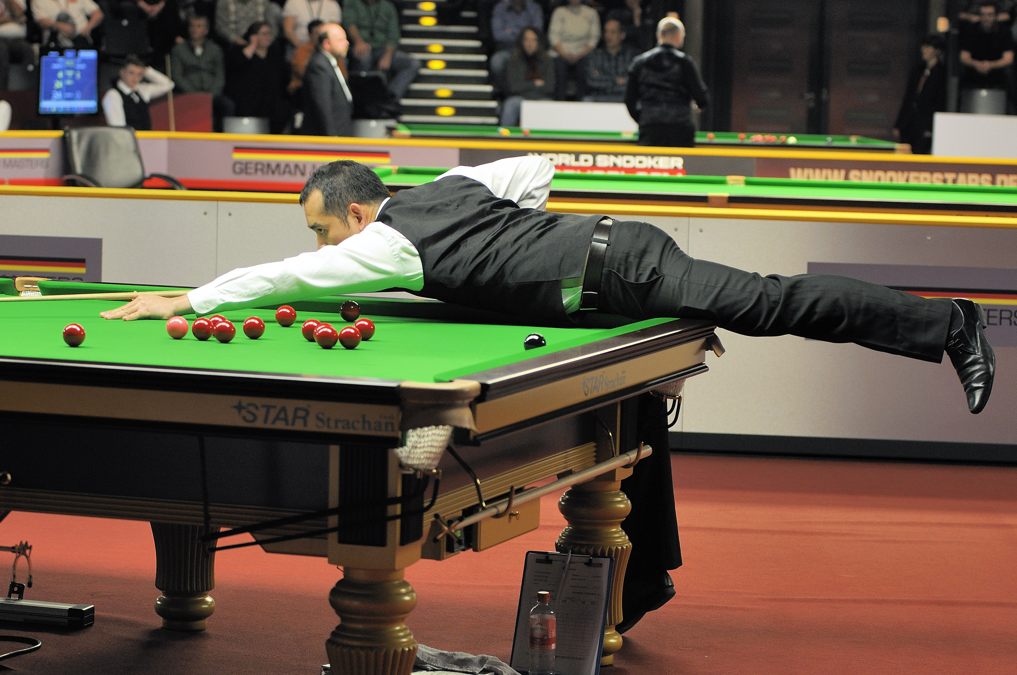 Picture taken in Berlin during the Snooker German Masters in 2014. Dechawat Poomjaeng.